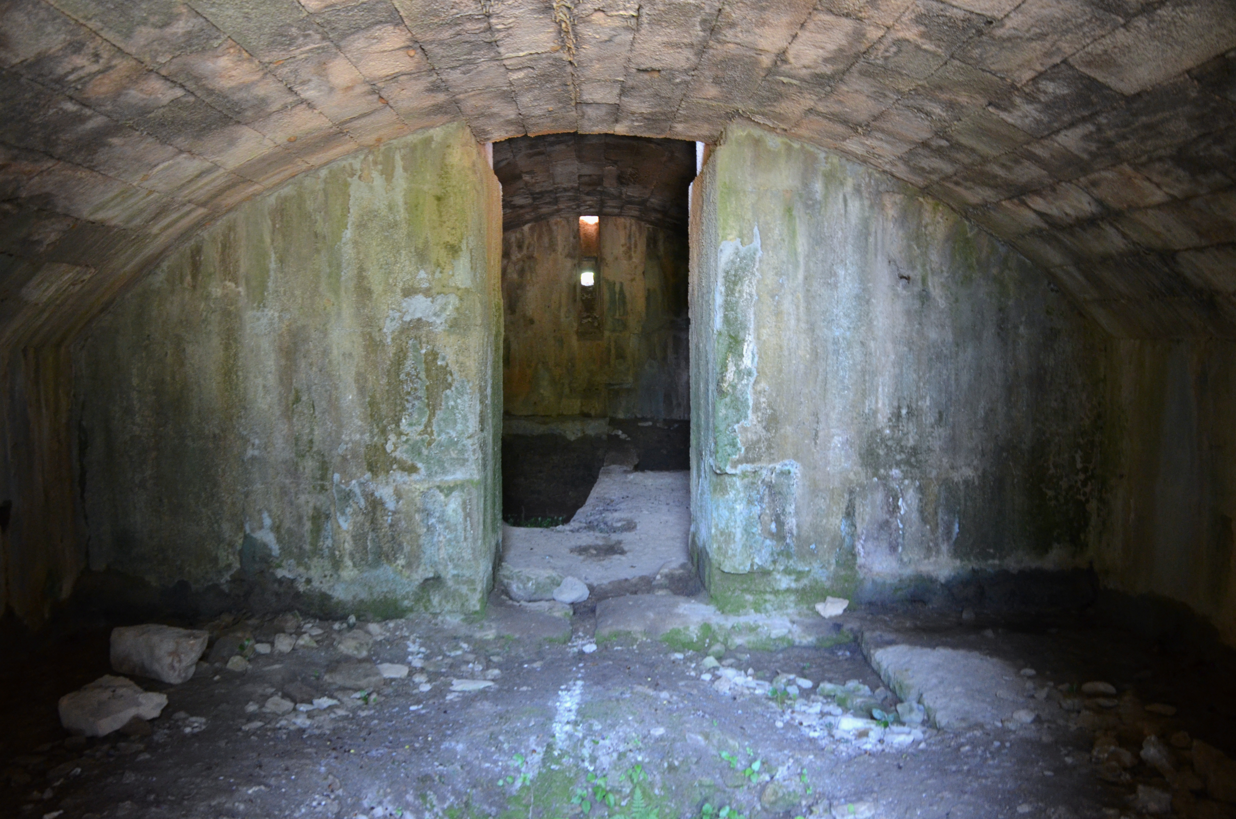 The interior of the so-called Şekerhane Köşkü, a cenotaph for the deceased emperor Trajan, Selinus, Cilicia, Turkey